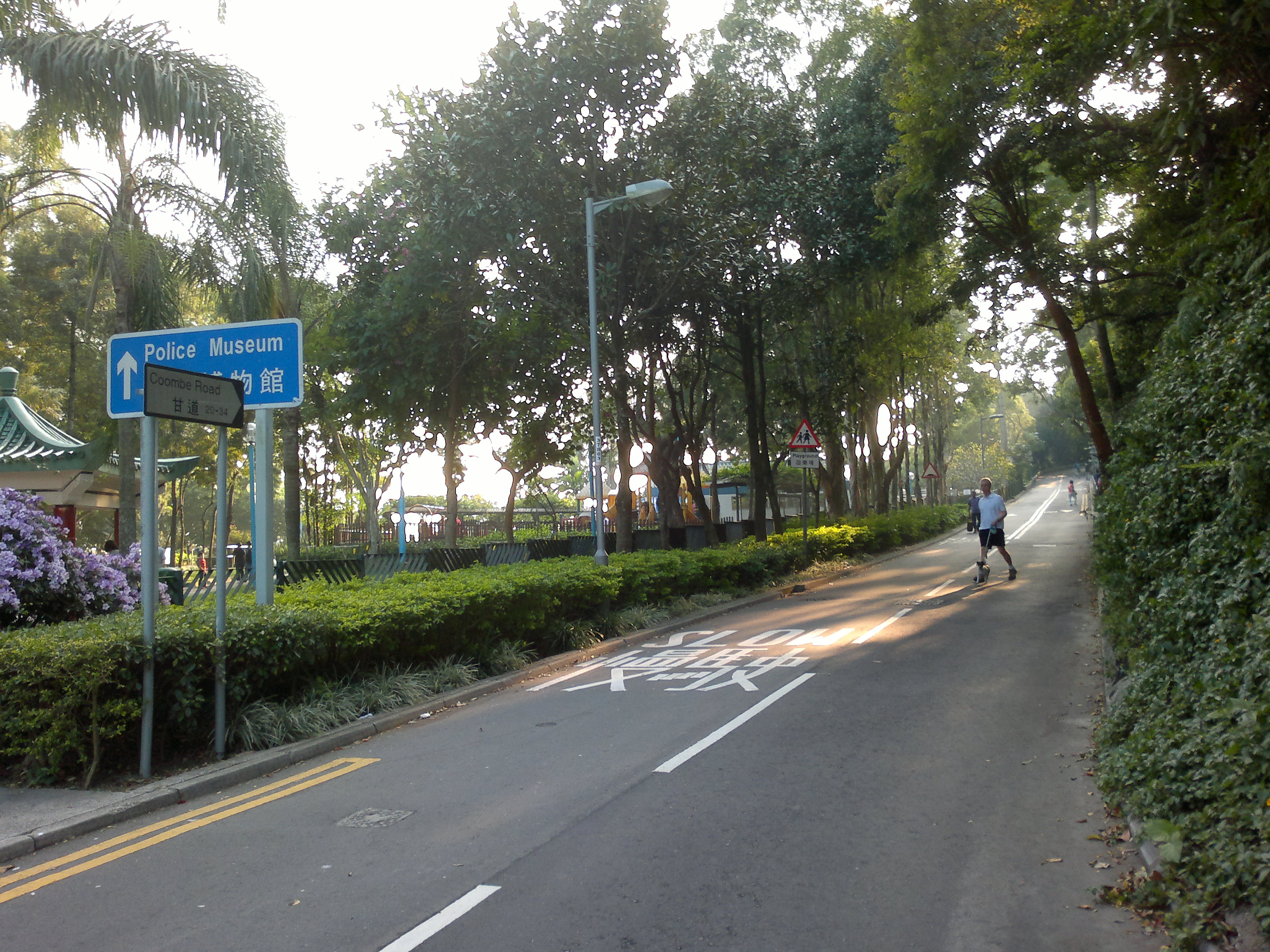 Coombe Road at Wan Chai Gap